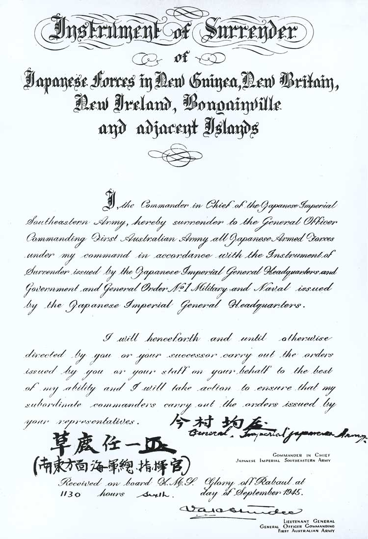 This document is a World War II Instrument of Surrender by Japanese Forces in New Guinea, New Britain, New Ireland, Bougainville and adjacent islands. It is signed by Lieutenant General Vernon Sturdee (1890–1966), General Officer Commanding First Australian Army and Commander in Chief of the Japanese Imperial Southeastern Army, General Hitoshi Imamura (1886–1968). The signing took place on board the aircraft carrier HMS Glory off the coast of Rabaul on the island of New Britain on 6 September 1945.